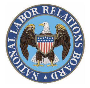 Color logo of the National Labor Relations Board, an independent agency of the United States federal government.